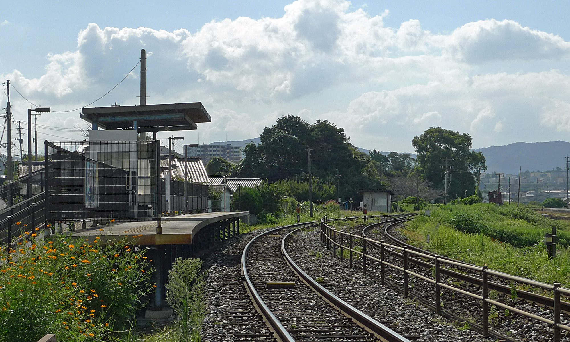 Heisei Chikuho Railway Kami-Ita Station platform